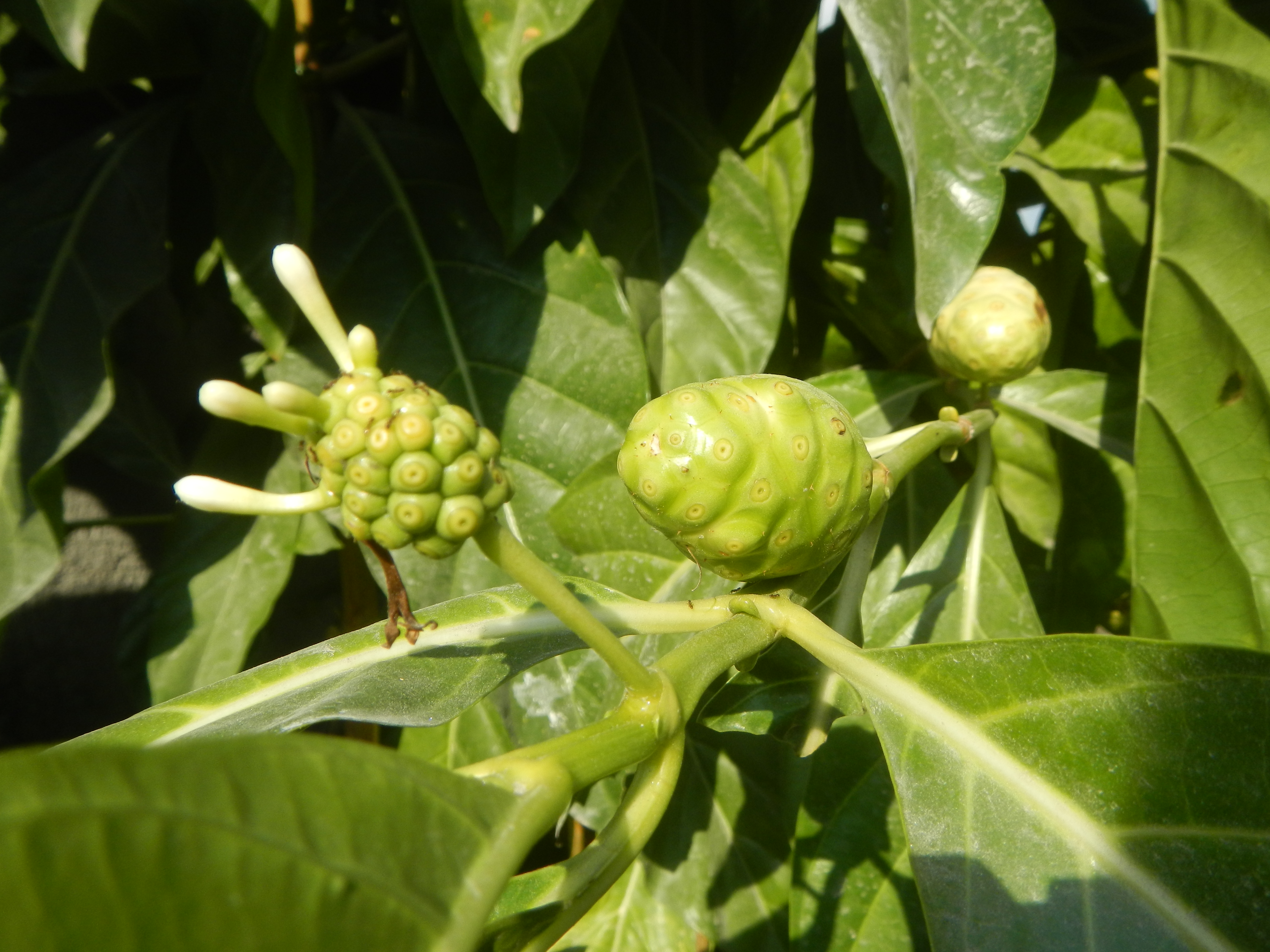 Tumbong-aso LUIANG-USIU Zijngiber zerumbet (Linn.) Apatot Morinda citrifolia Linn. NONI Hai ba ji Tumbong-aso (Philippines) Sta. Cruz Elementary (Elevated Multi-Purpose Building) and National High Schools, Paombong, Bulacan Construction of Sta. Cruz High School P 7.535 million Parokya ng Santa Cruz (Mission Parish, Sta. Cruz, Paombong, Bulacan) Roman Catholic Diocese of Malolos Solemnly Dedicated on November 18, 2017 Parish Priest Fr. Leopoldo S. Evangelista III stated building in 1966 Quasi-Parish on 1997 and Parish on May 28, 2000 River Districts of (Sitios Lantad & Matalaba) Binakod - (Sitios Centro, Vitas & Katyang Wawa) Sta. Cruz, Paombong, Bulacan; River Districts (Masukol-Binacod-Sitio Lantad-San Jose, Paombong, Bulacan) in Barangays Santa Cruz 14°46'23"N 120°47'51"E Binacod (Sitio Lantad), beside Masukol Paombong, from San Jose, Fish port, from Poblacion, Paombong, Bulacan (Sesuvium portulacastrum Dampalit plants, Nypa fruticans, or Nipa trees in the Philippines, Mangroves in the Philippines, Migratory Birds, Fish ponds, salt, oyster and seafoods farming, fishing and passenger boats, Halls, Schools, Chapels, Wharfs, small ports and harbours gateway to Manila Bay, and Bataan Province from and along the Malolos City, Bulacan, Paombong-Hagonoy, Bulacan Provincial Road, or Malolos City-Paombong-Hagonoy National Road connecting to the Diversion Road, Blas F. Ople Diversion Road (Malolos City & Paombong, Bulacan), to and from Malolos Flyover (Malolos City, Bulacan) and Malolos City overpass bridge at and from MacArthur Highway or Manila North Road) MacArthur Highway (Malolos City section) (Note: Judge Florentino Floro, the owner, to repeat, Donor Florentino Floro of all these photos hereby donate gratuitously, freely and unconditionally all these photos to and for Wikimedia Commons, exclusively, for public use of the public domain, and again without any condition whatsoever).